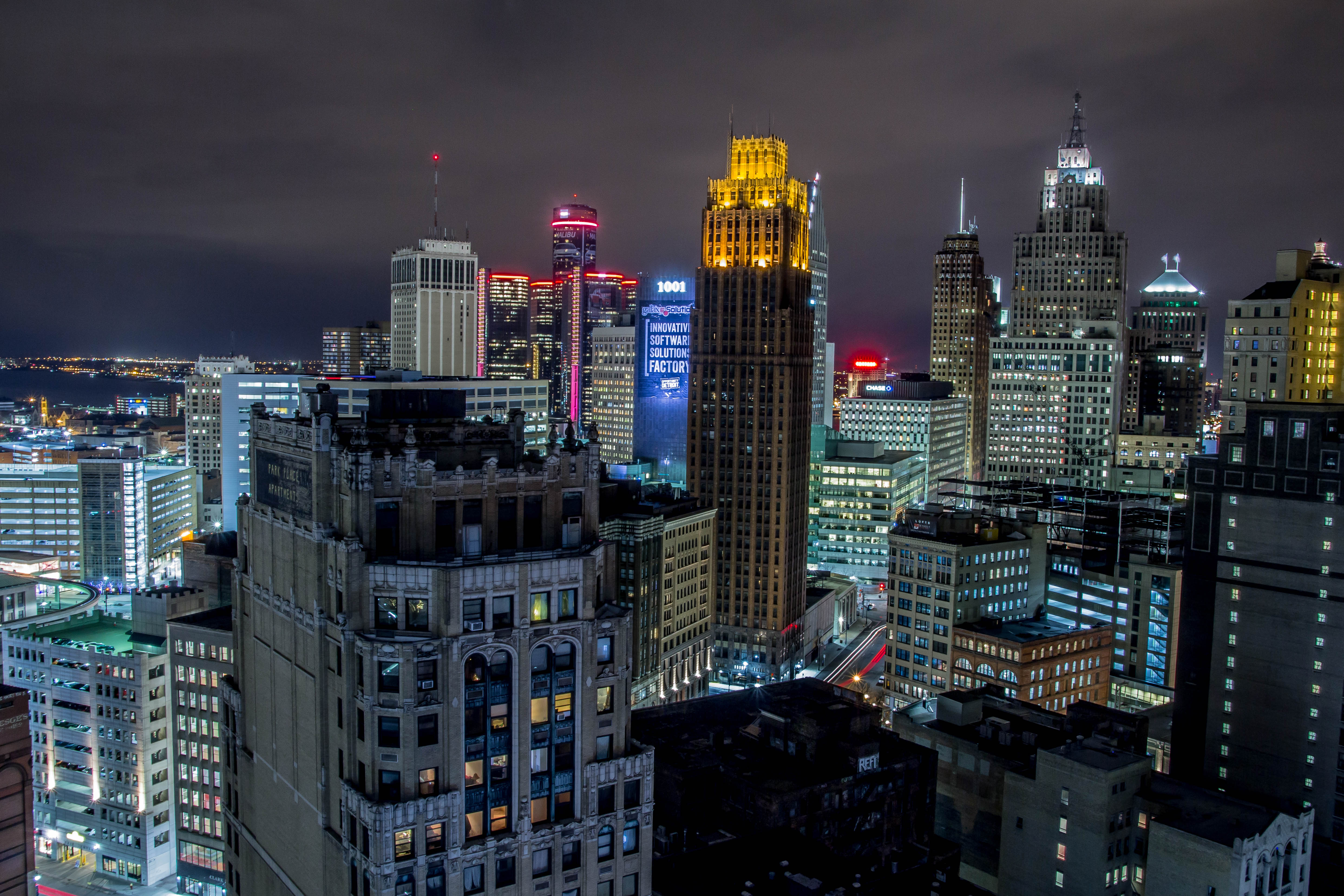 Night-time skyline shot of glowing city that is Detroit.